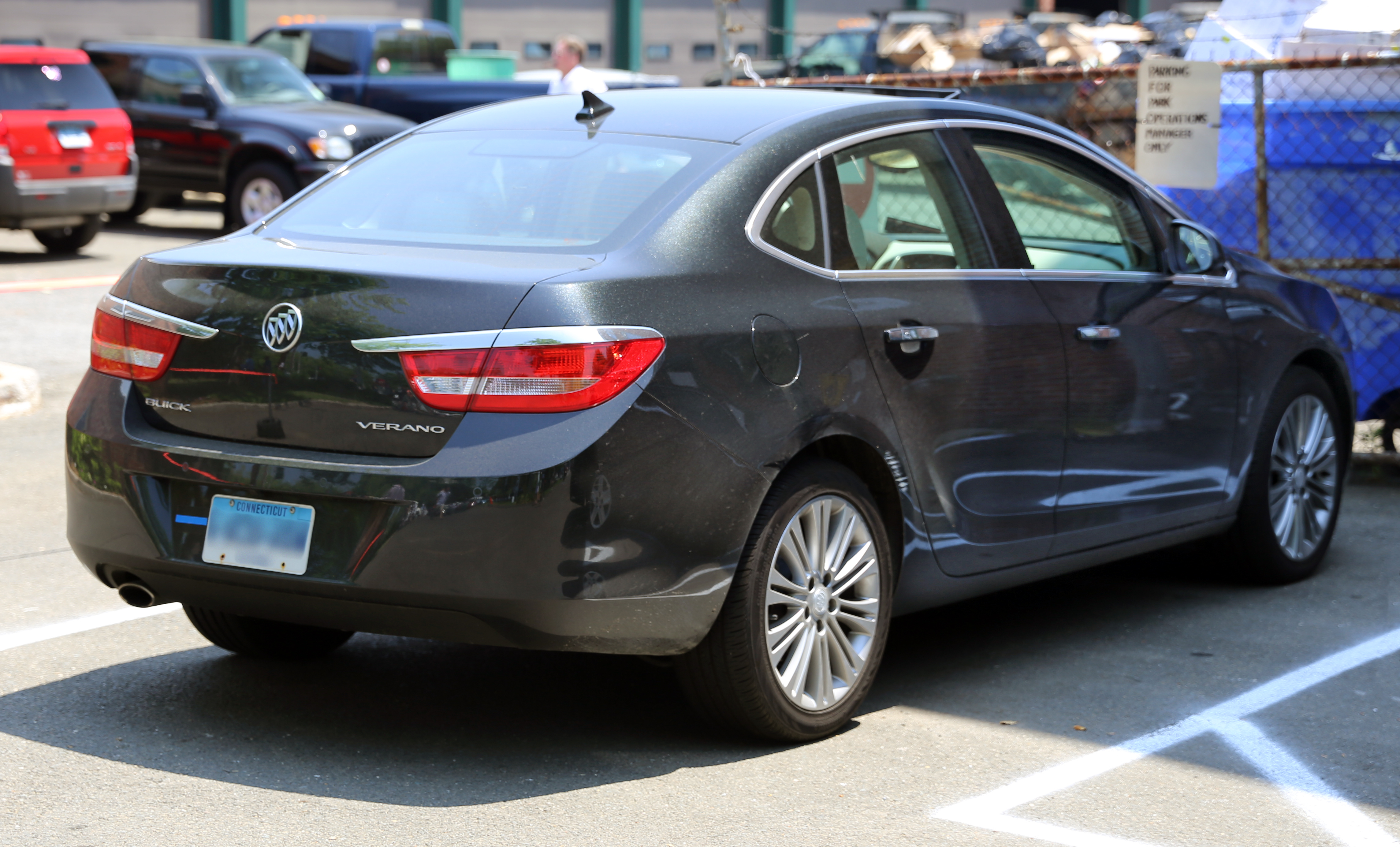 2013 Buick Verano with the naturally aspirated 2.4 litre four and the Leather Group package.